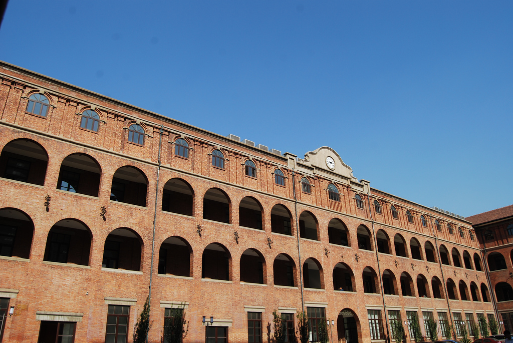 Former Italian Barracks in Guangming Dao, Hebei District, Tianjin